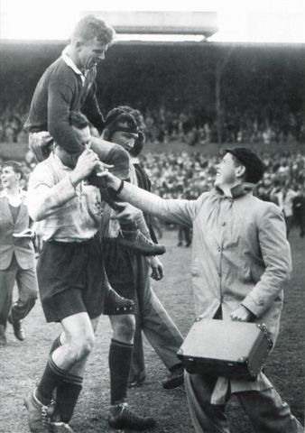 Australia national team's captain, John Solomon, being chaired by the Springboks in 1953. Australia defeated South Africa that match.